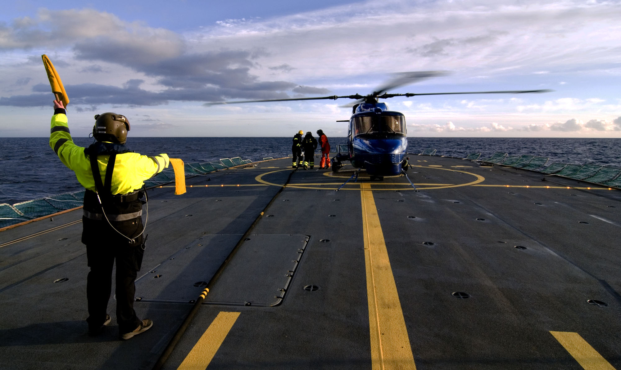 Rotors Running Refuelling of a Danish Navy Lynx on-board a Thetis-class ocean patrol vessel